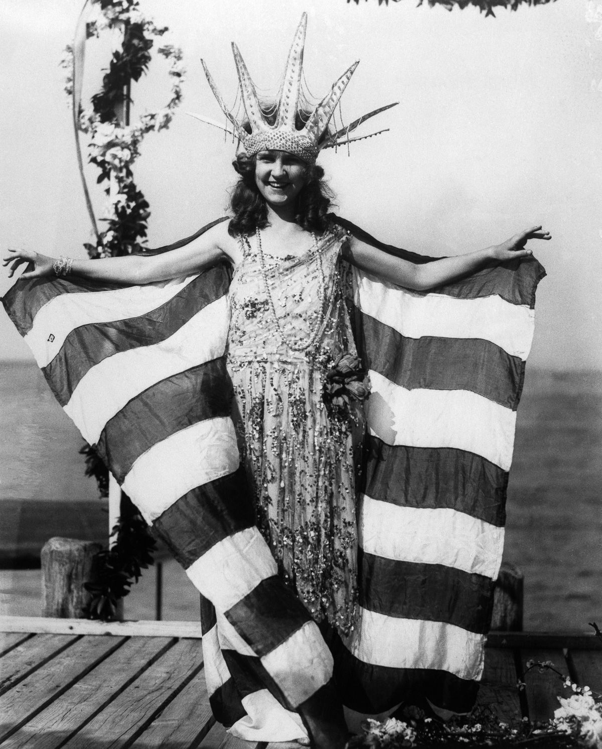 A photo of the first Miss America winner, Margaret Gorman. This was the official photo of her as the winner.